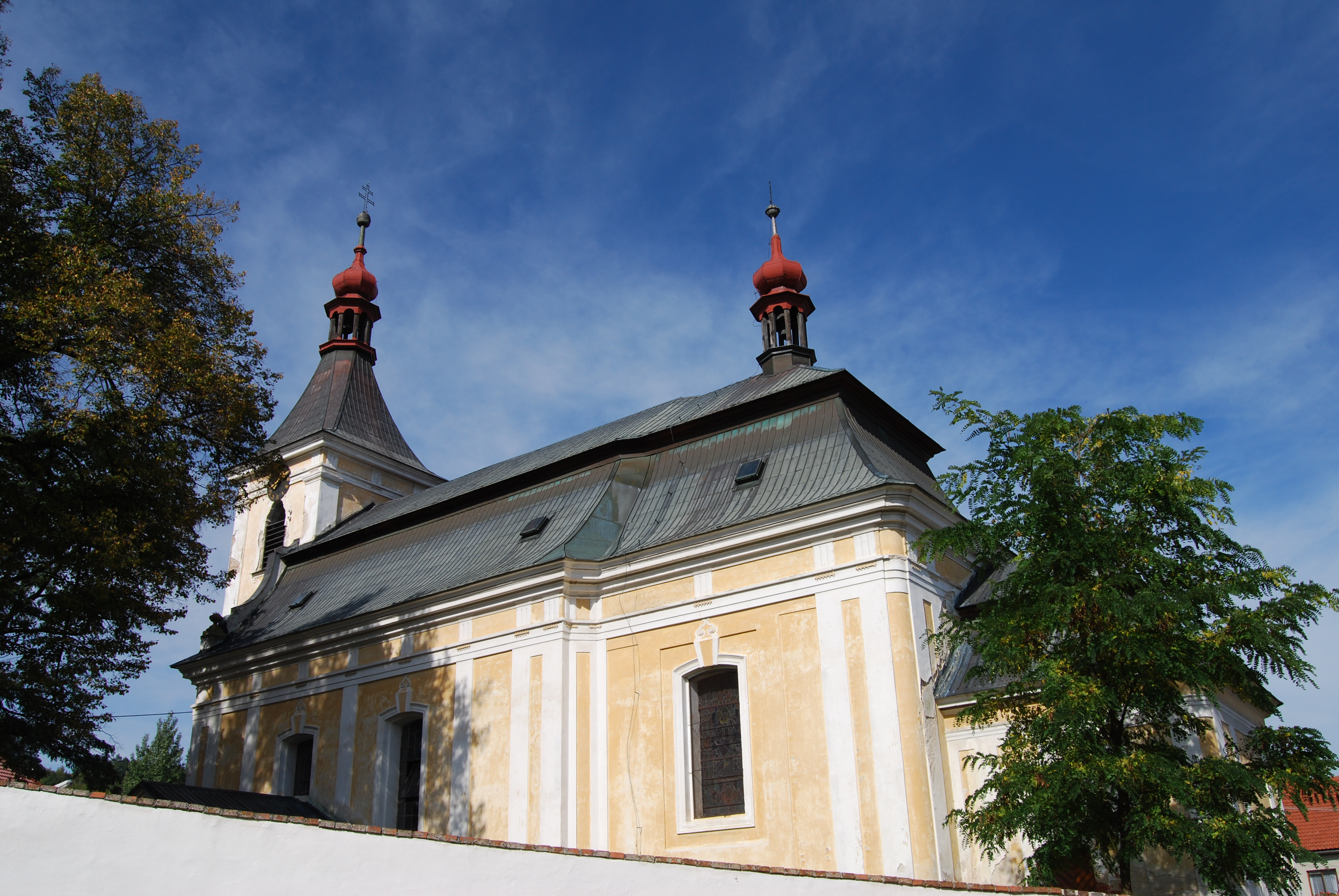 Vitějovice village in Prachatice District, Czech Republic. Church of Saint Markéta